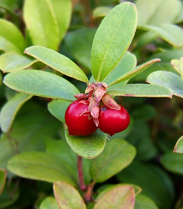 lingonberry, cowberry, foxberry, mountain cranberry, lowbush cranberry, partridgeberry